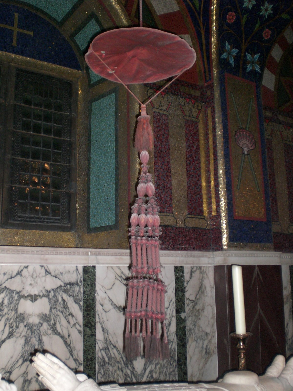 Galero